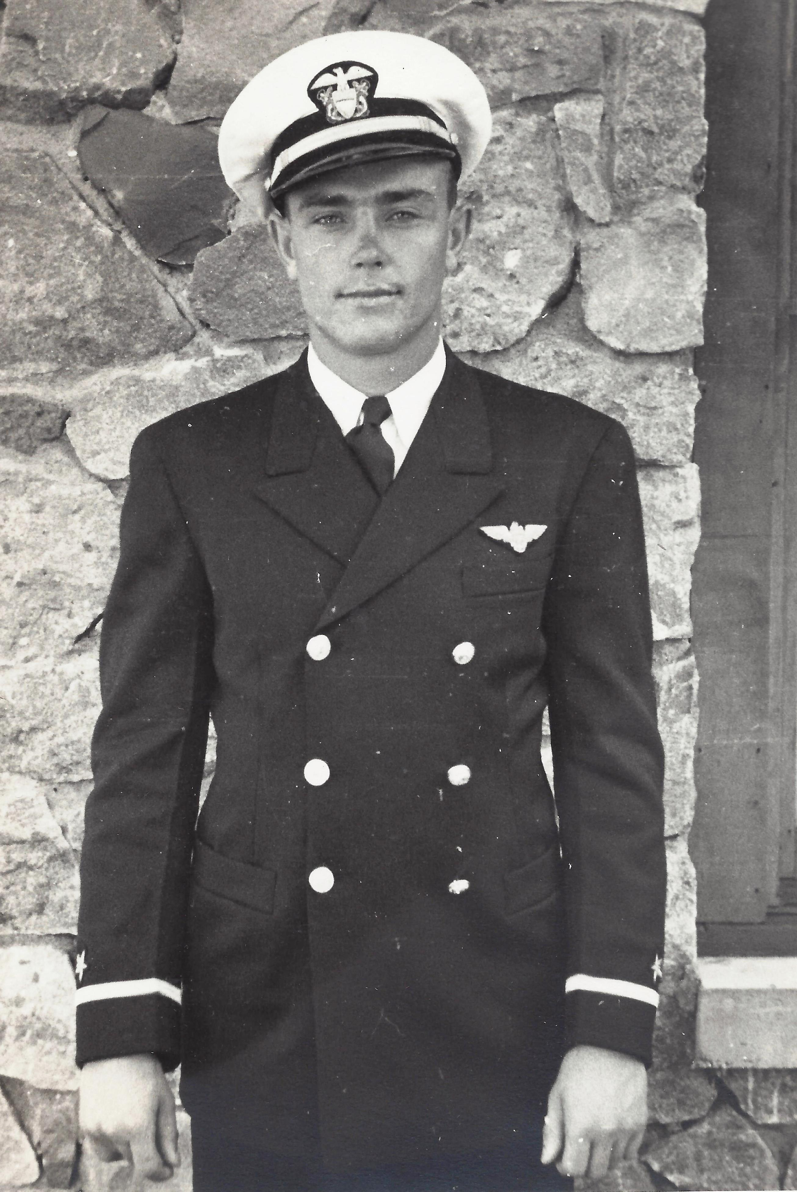 Don visits home, Clarinda, Iowa